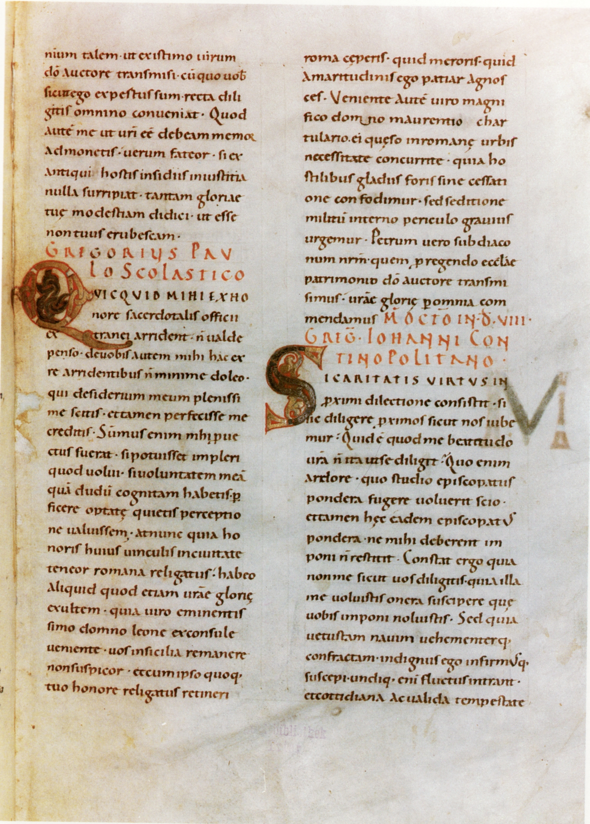 fol. 2r of a Registrum Gregorii, Stadtbibliothek Trier Hs. 171/1626